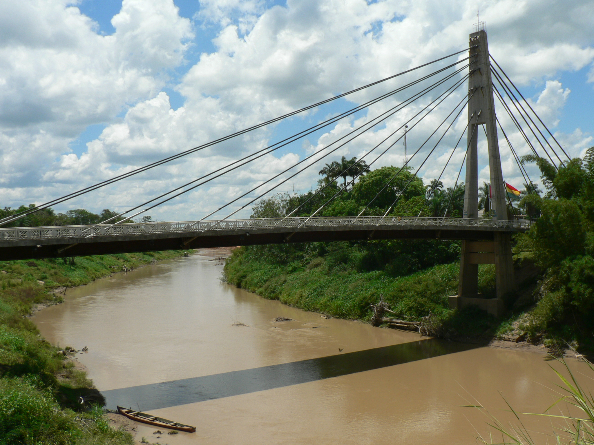 The bridge "Puente de la Amistad" or "Ponte Binacional Wilson Pinheiro" connects Cobija in Bolivia (on the left) with Brasiléia in Brazil (on the right).